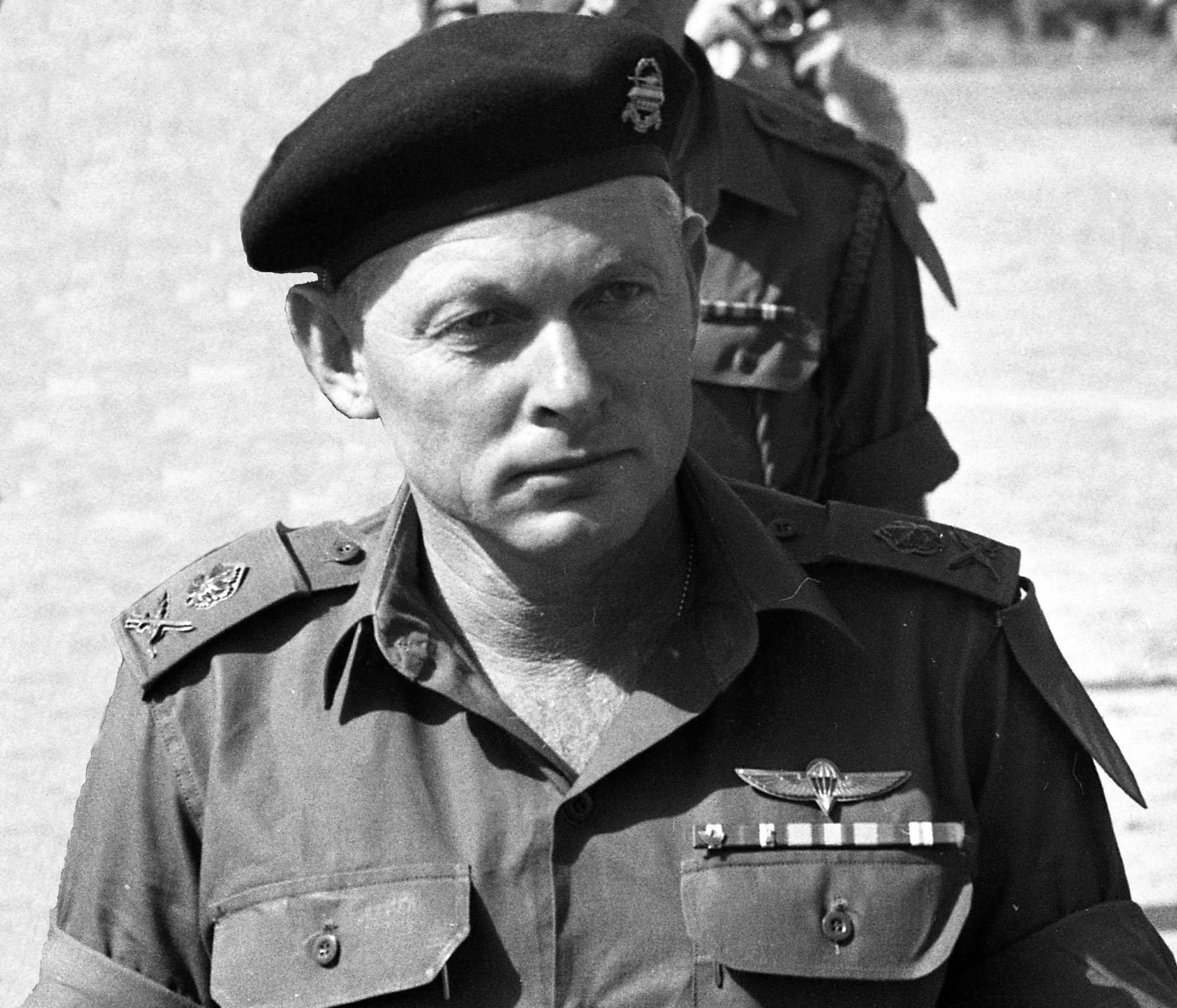 Officer Training Course of IDF Armoured Corps, 1969.